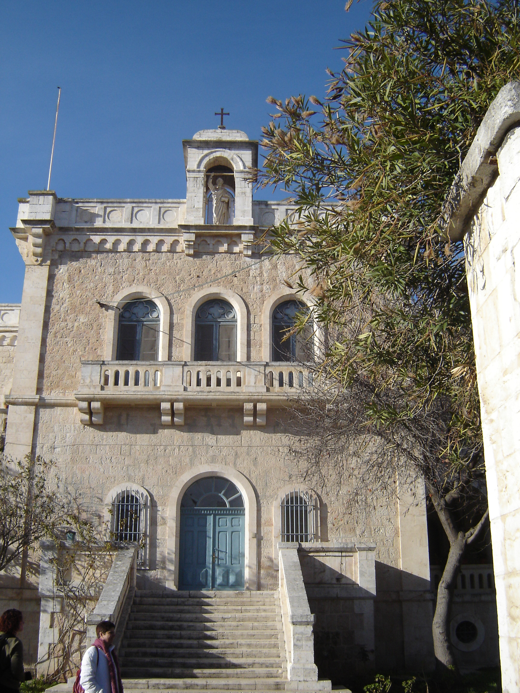 Entrance to Ratisbonne Monastery "Saint Pierre de Sion" Jerusalem, 1/2007